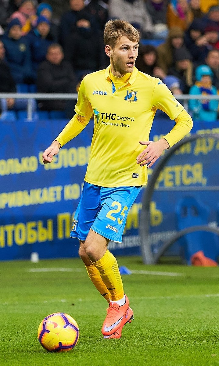 Arseniy Logashov